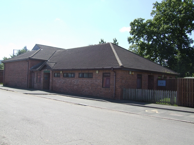 Ditton Priors Village Hall On the site of the old railway station.